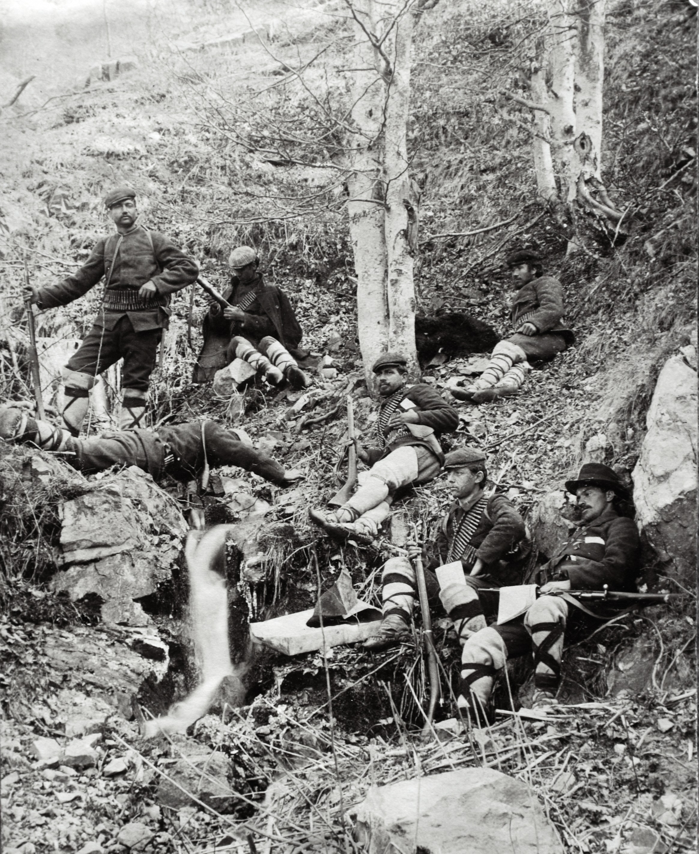 IMARO members, among them Hristo Silyanov